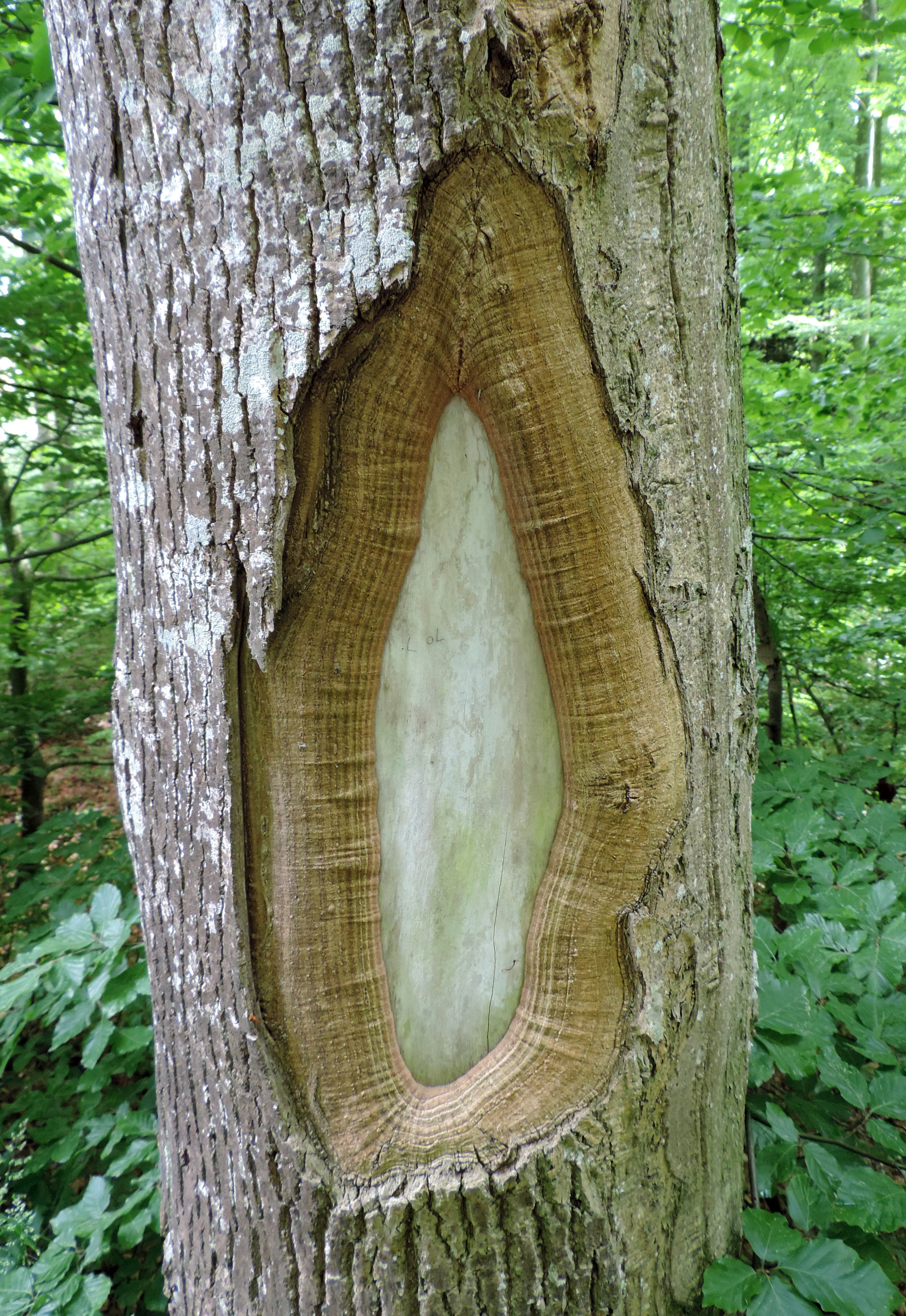 Callus on Fraxinus excelsior trunk